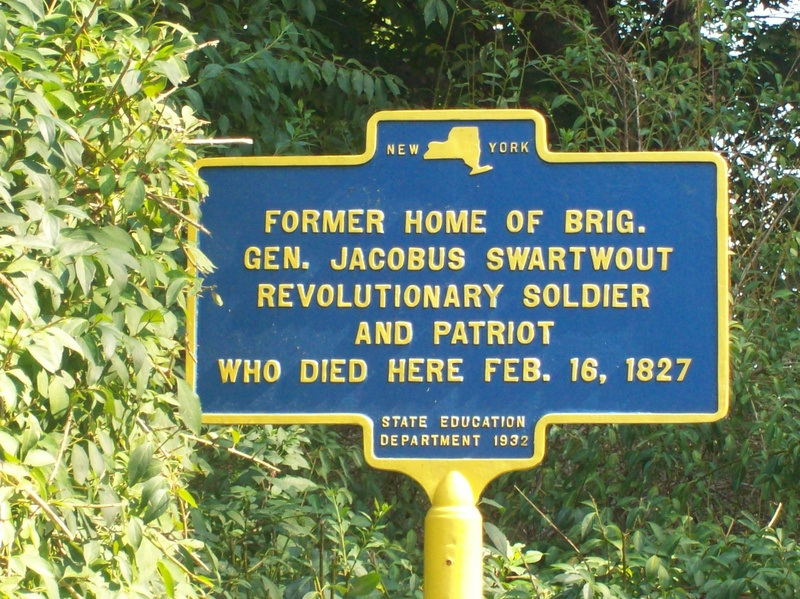 swartwout landmark